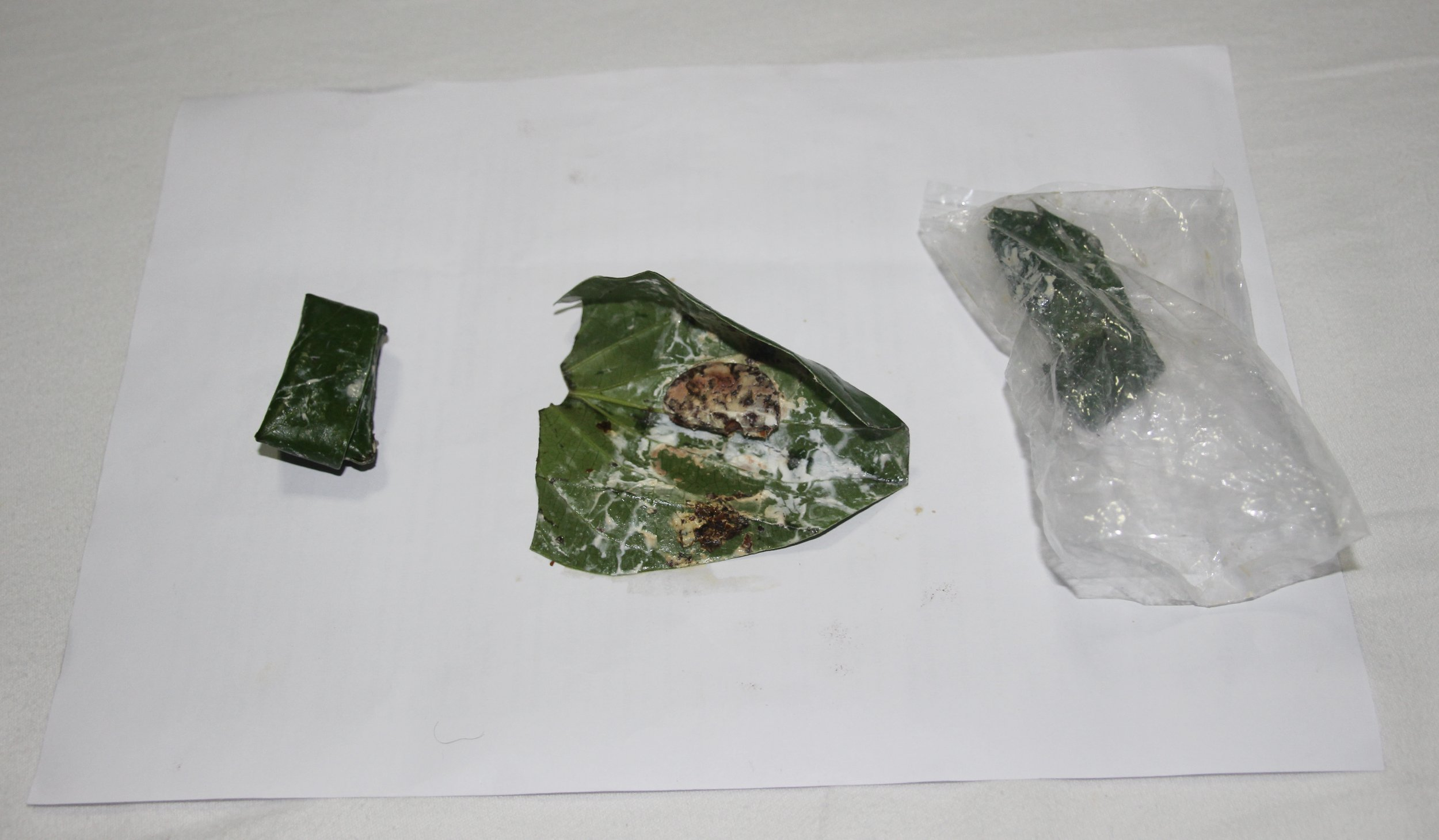 Purchased in Bankok